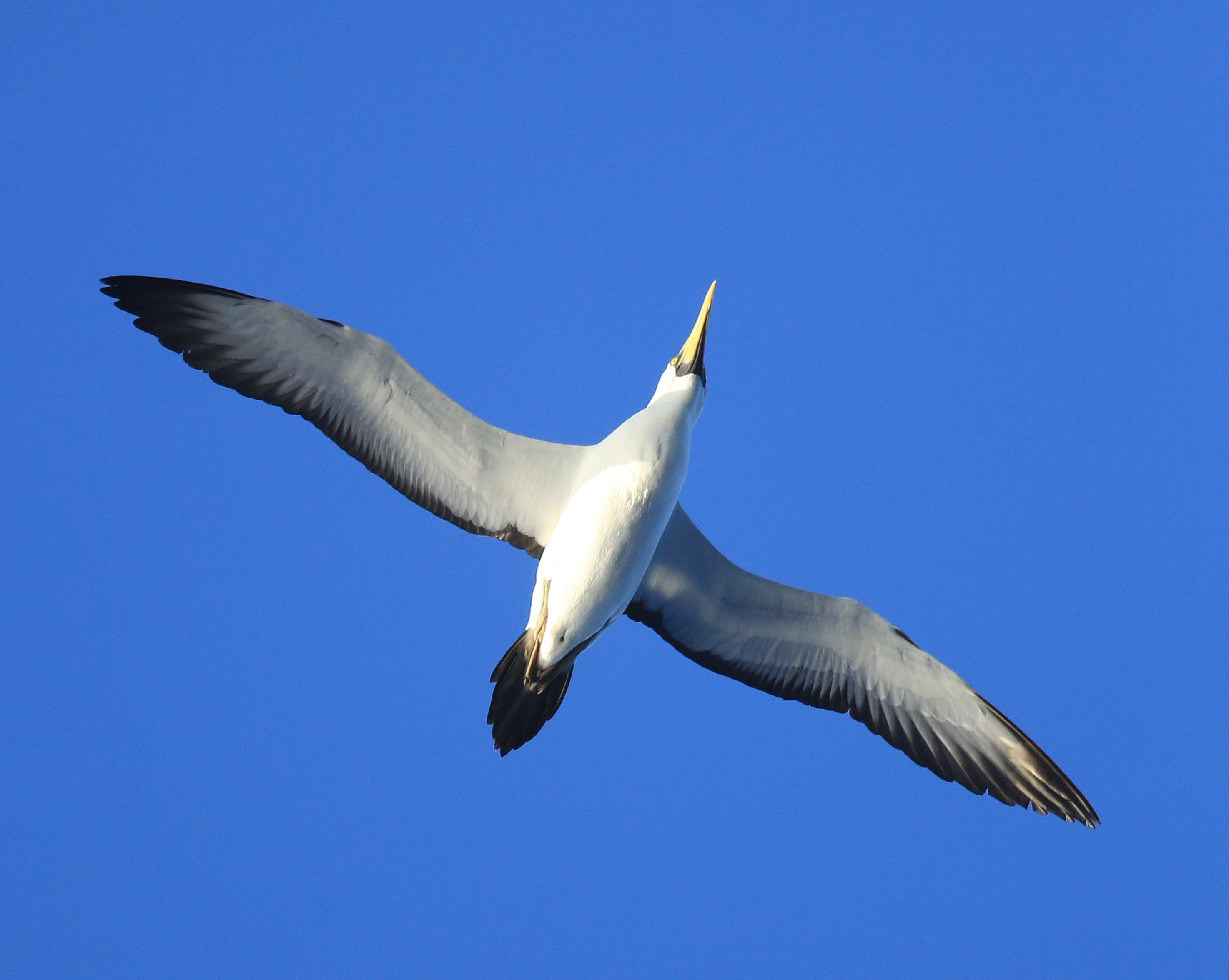 Masked booby in flight, showing underwing markings. Grand Turk, TC